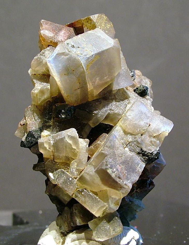 Sanidine Locality: Pili Mine, Municipio Saucillo, Chihuahua, Mexico This is 3.7 cm x 2.5 cm x 2.8 cm with individual crystals up to 1.3 cm. The specimen shows a wonderful pearlescent shimmer and play of colors. The specimen is in the Val Collins collection.